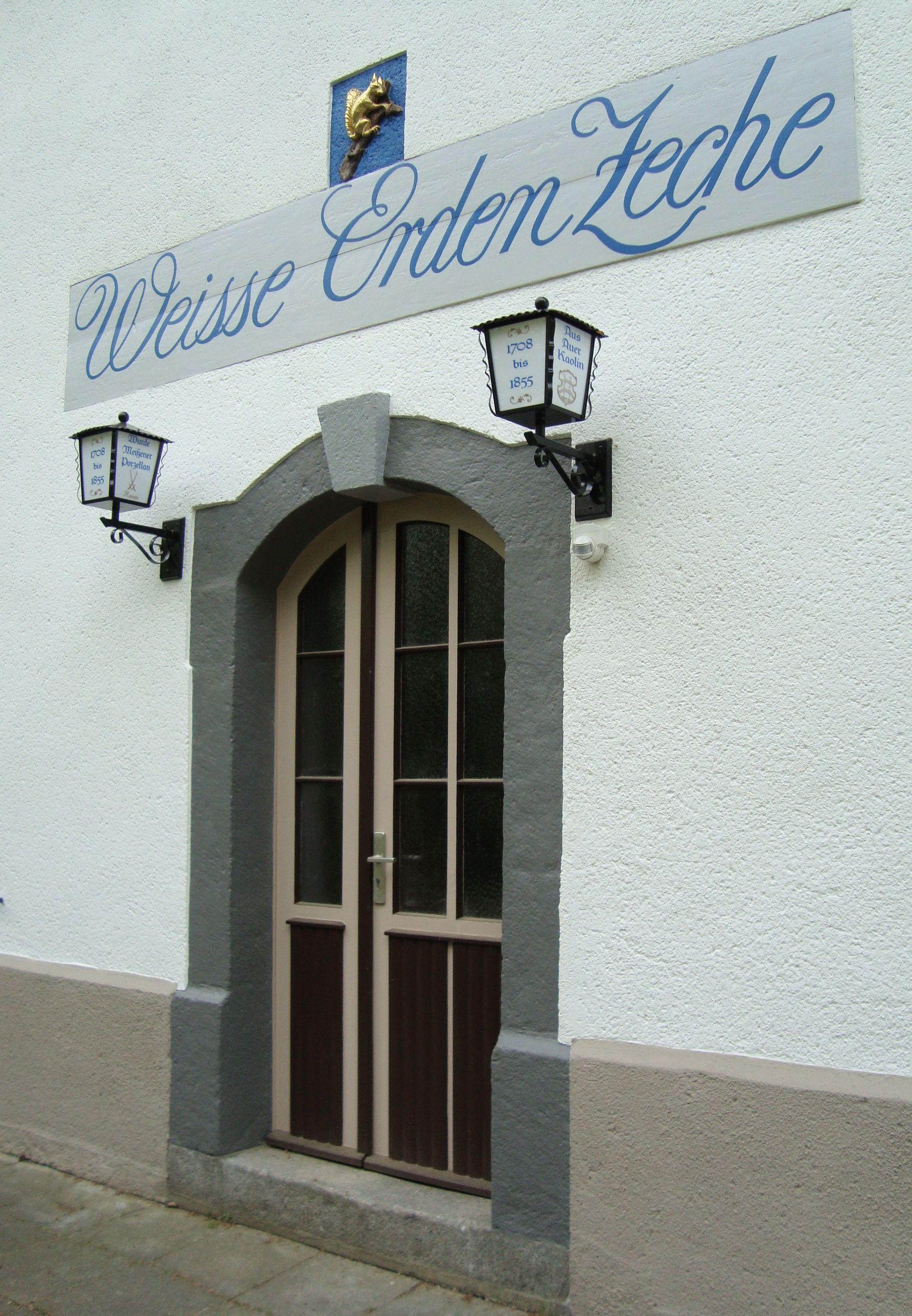 Entrance of the Main building of the German mine "Weißerdenzeche St. Andreas" near Aue (Sachsen) where Kaolinite had been extracted between 1700 and 1855